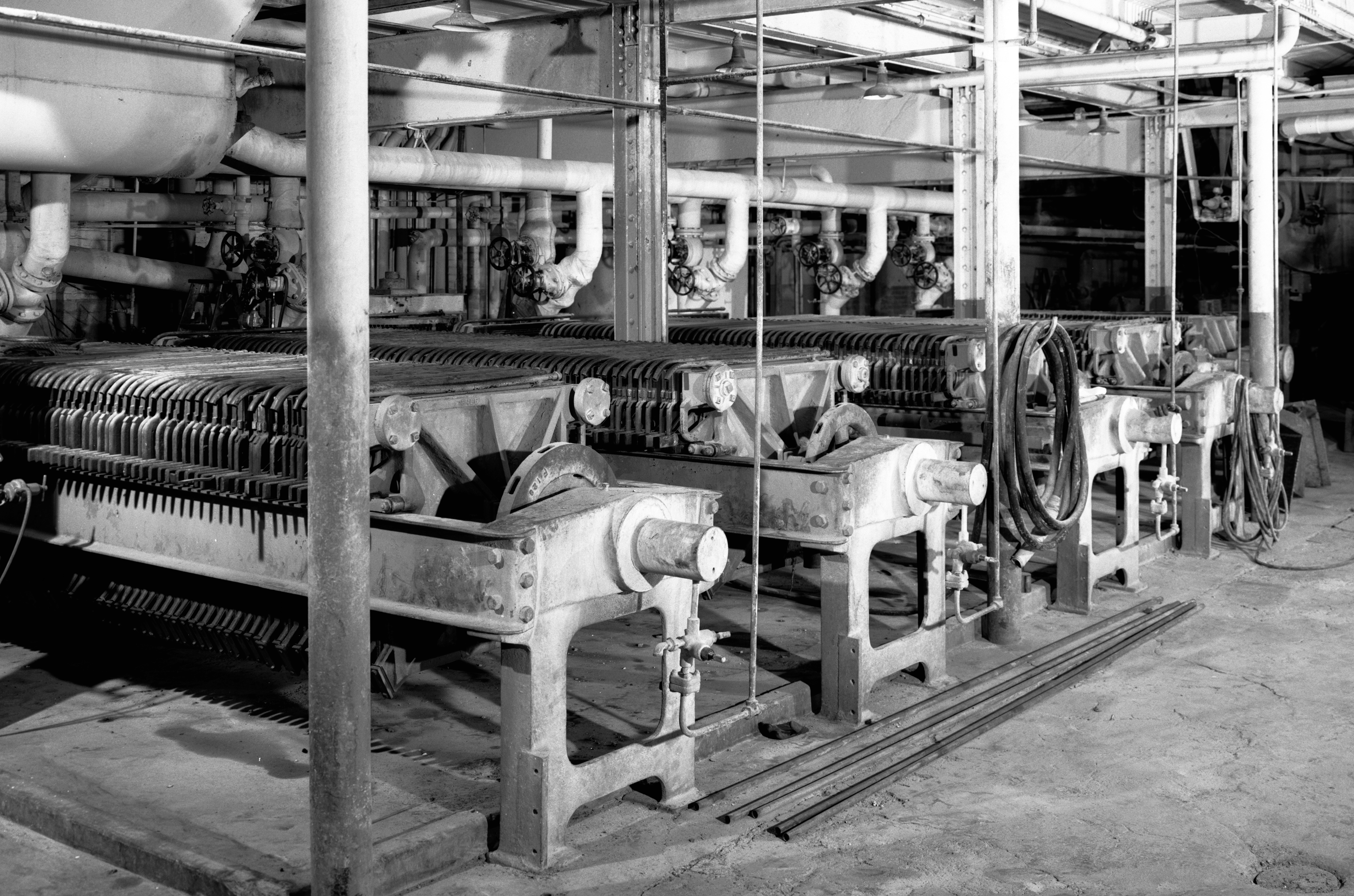 "GV PLATE AND FRAME PRESSES. Utah Sugar Company, Garland Beet Sugar Refinery, Factory Street, Garland vicinity, Box Elder County, UT" Survey number HAER UT-19